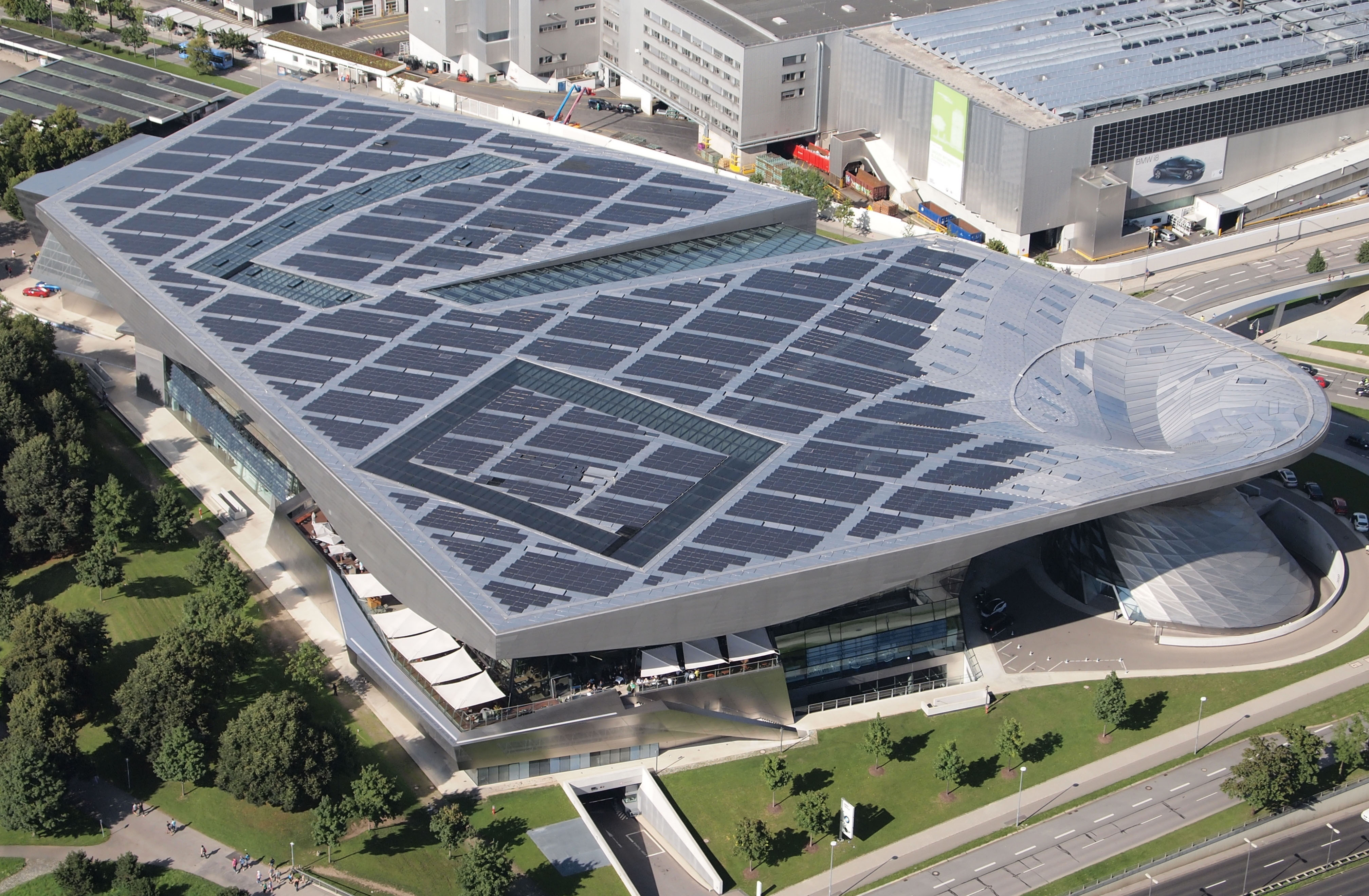 View from Olympiaturm to BMW Welt building, Munich.This photograph was taken with an Olympus E-PL1